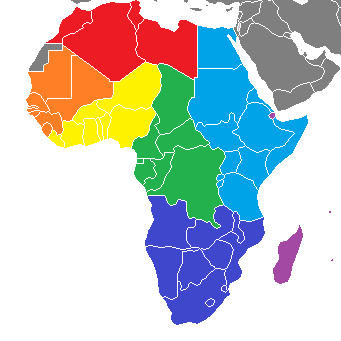 Subzones of the FIBA Africa Championship.